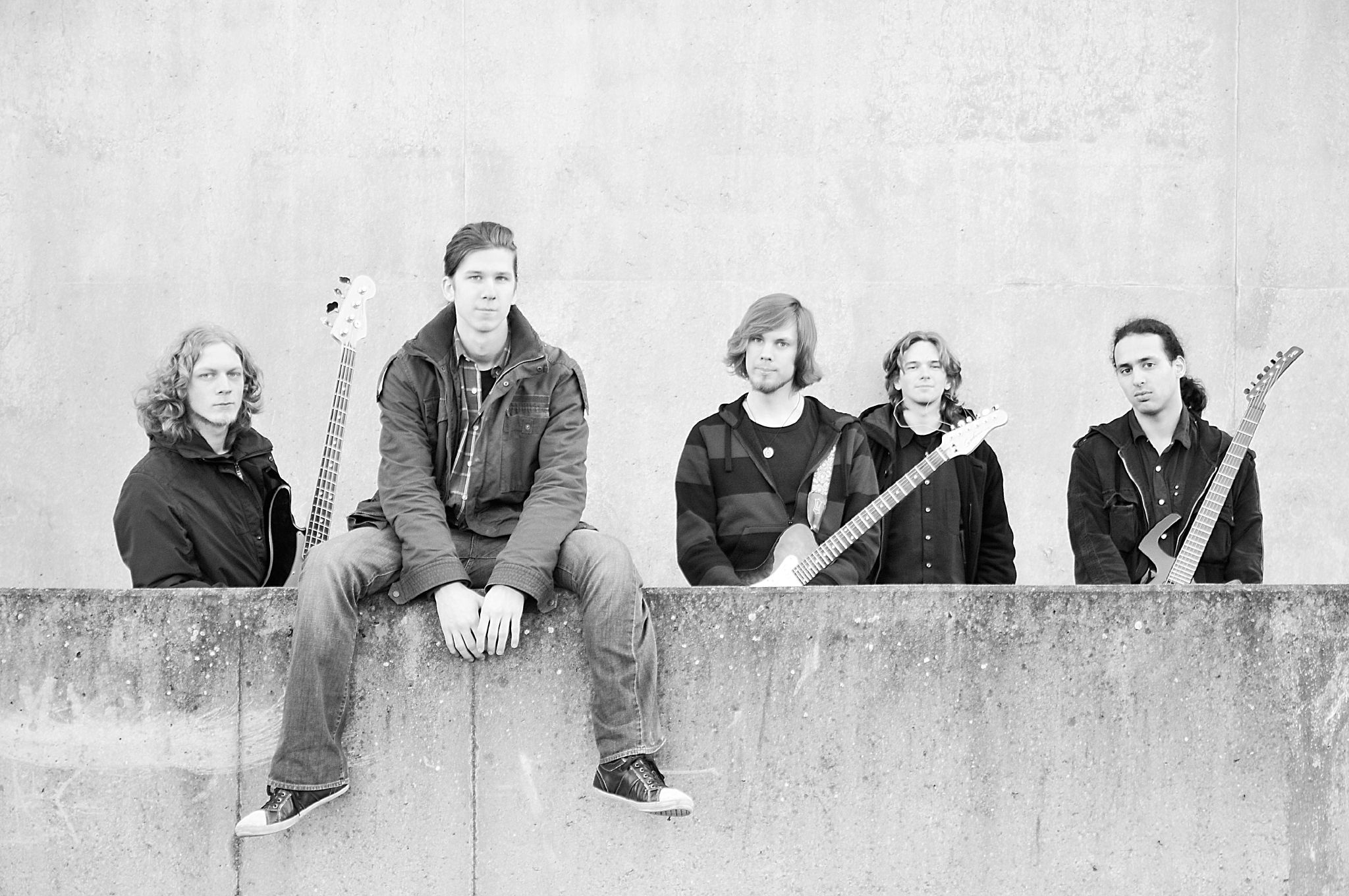 Sky Architect in 2009. (from left to right); Thomas Calandra, Mark Mcgee, James Bailey, Mark Mcgee, Timothy Seib.